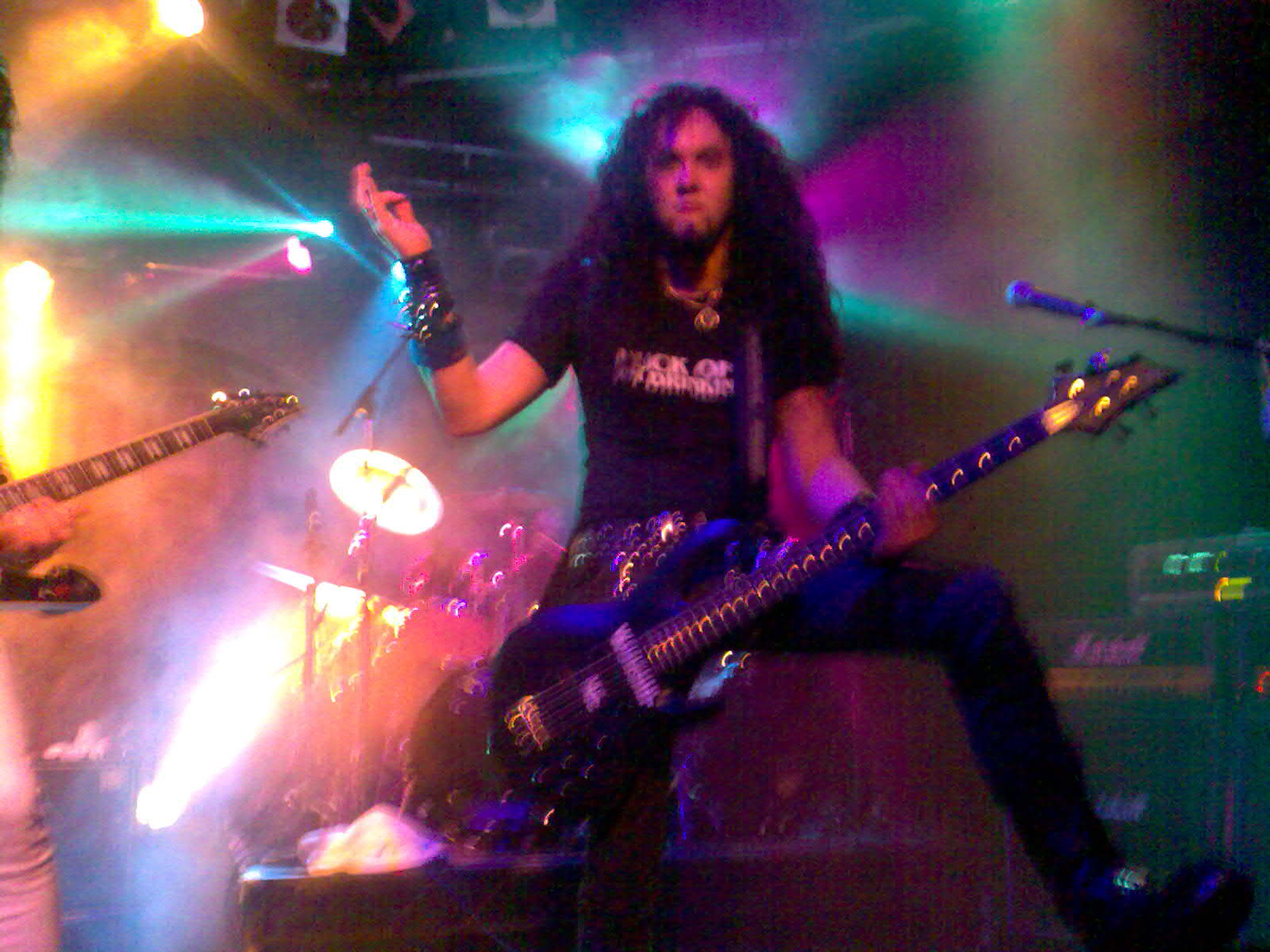 Frederic live in Sydney, Australia on May 9th, 2007